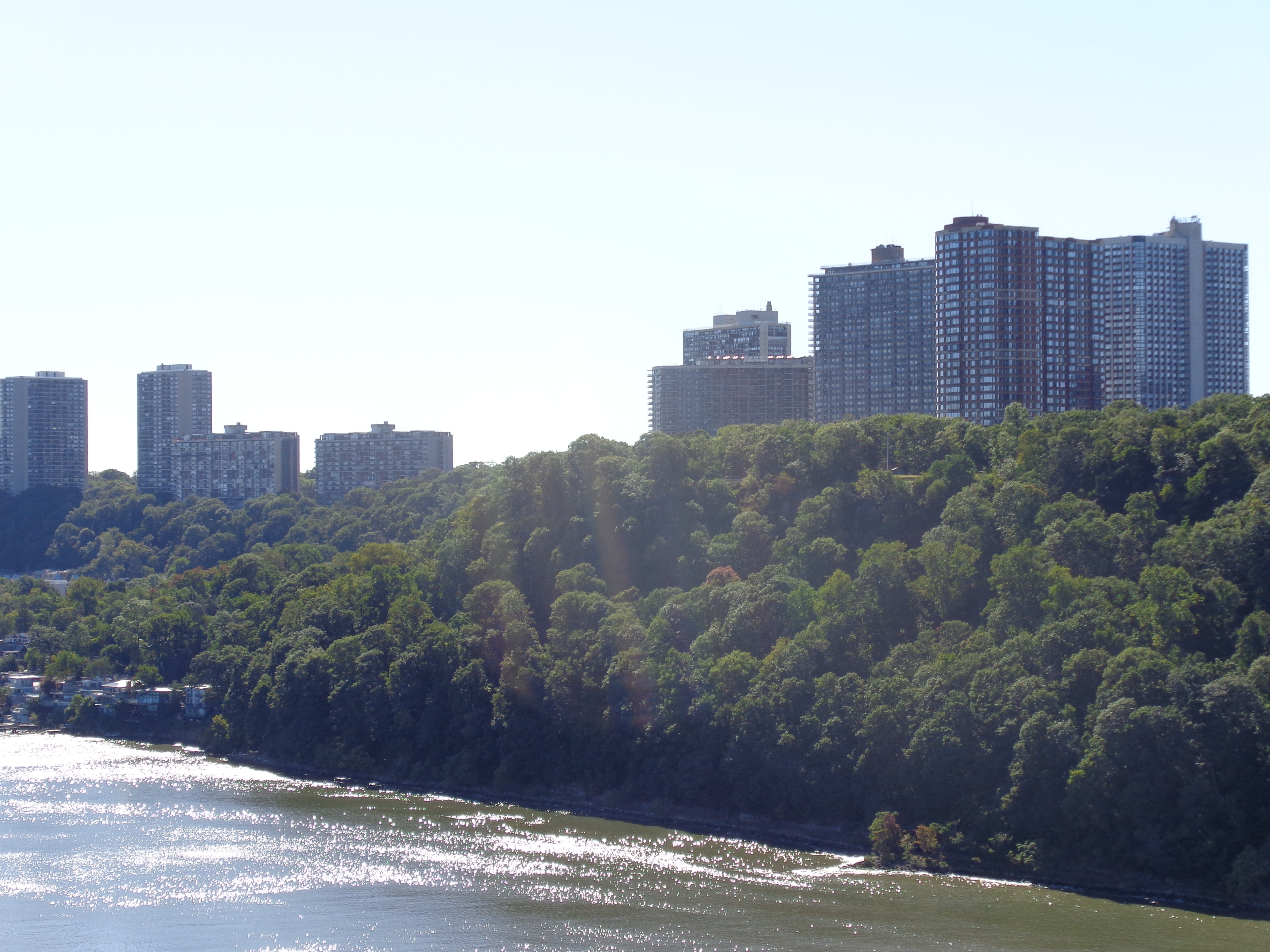 Hudson Palisades and Fort Lee skyline from GWB 2013